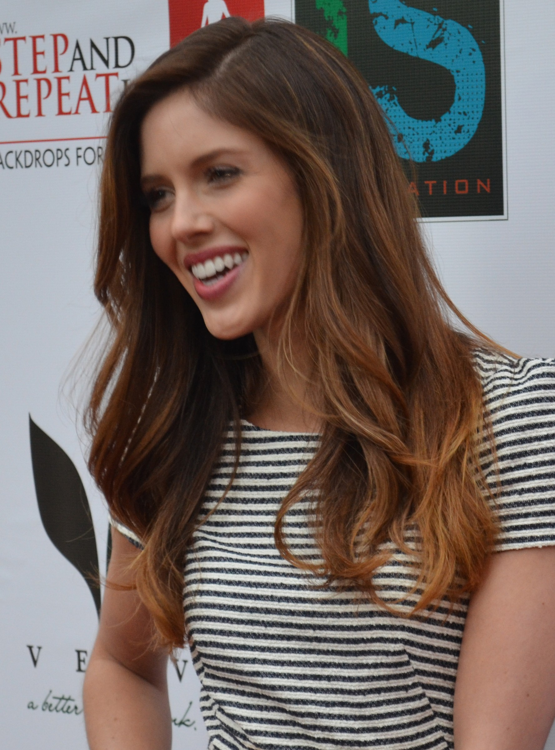 Kayla Ewell at the IS Foundation Influence Affair 2012.